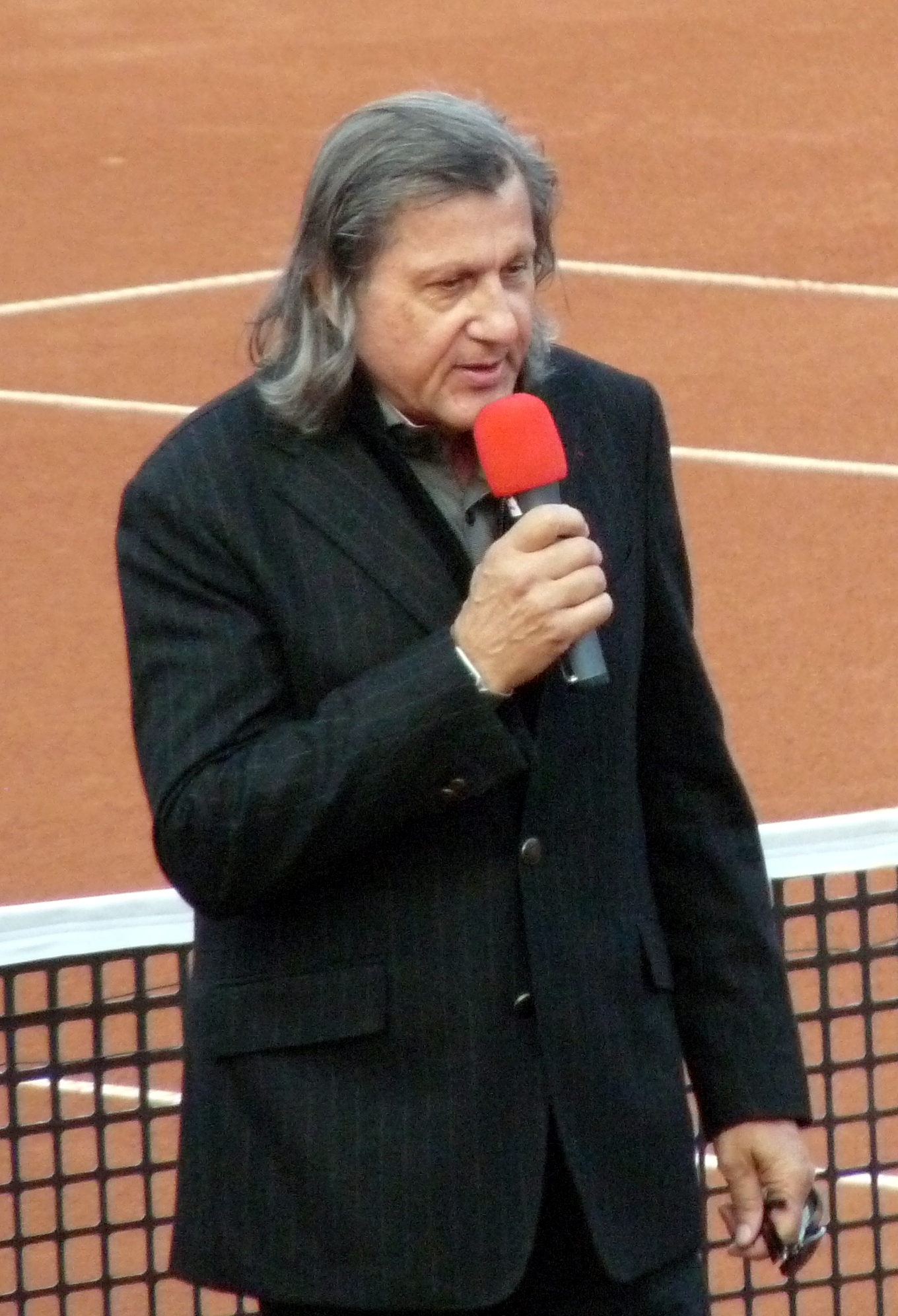 Ilie Năstase at Andrei Pavel's retirement match.